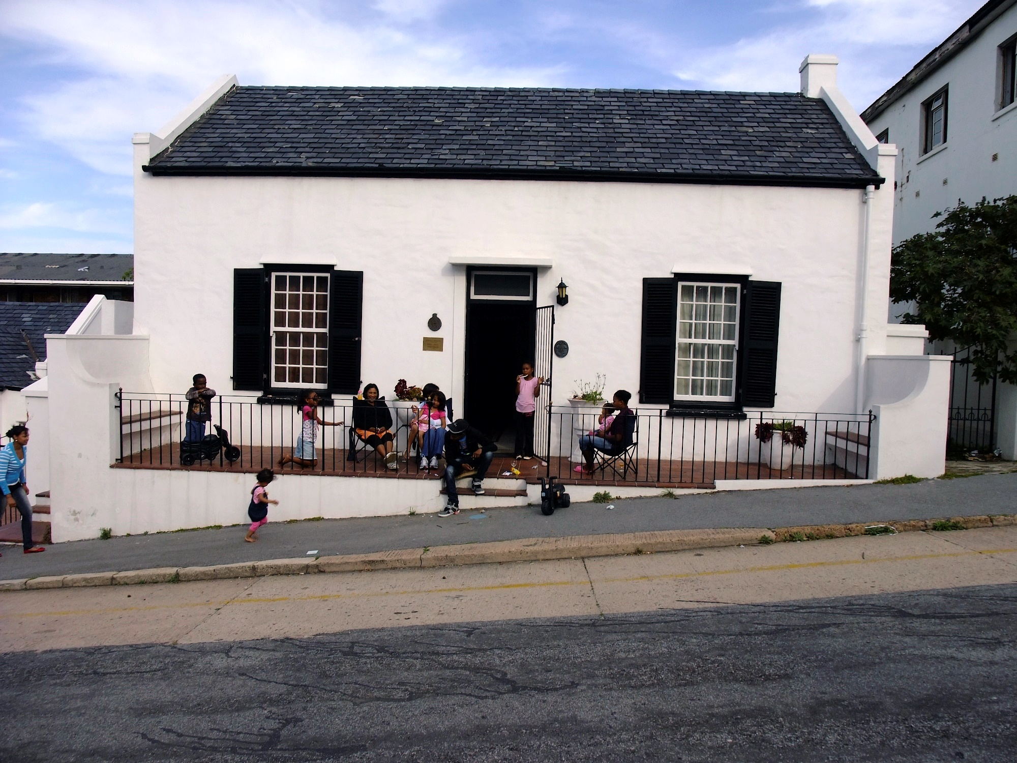 12 Castle Hill, Port Elizabeth This media shows a South African Protected Site with SAHRA file reference 9/2/073/0026.